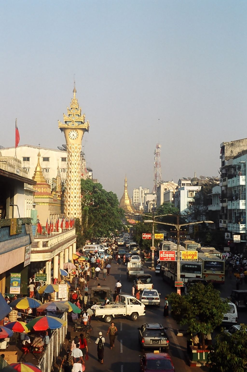 Mahabandula Road in Yangon, Myanmar